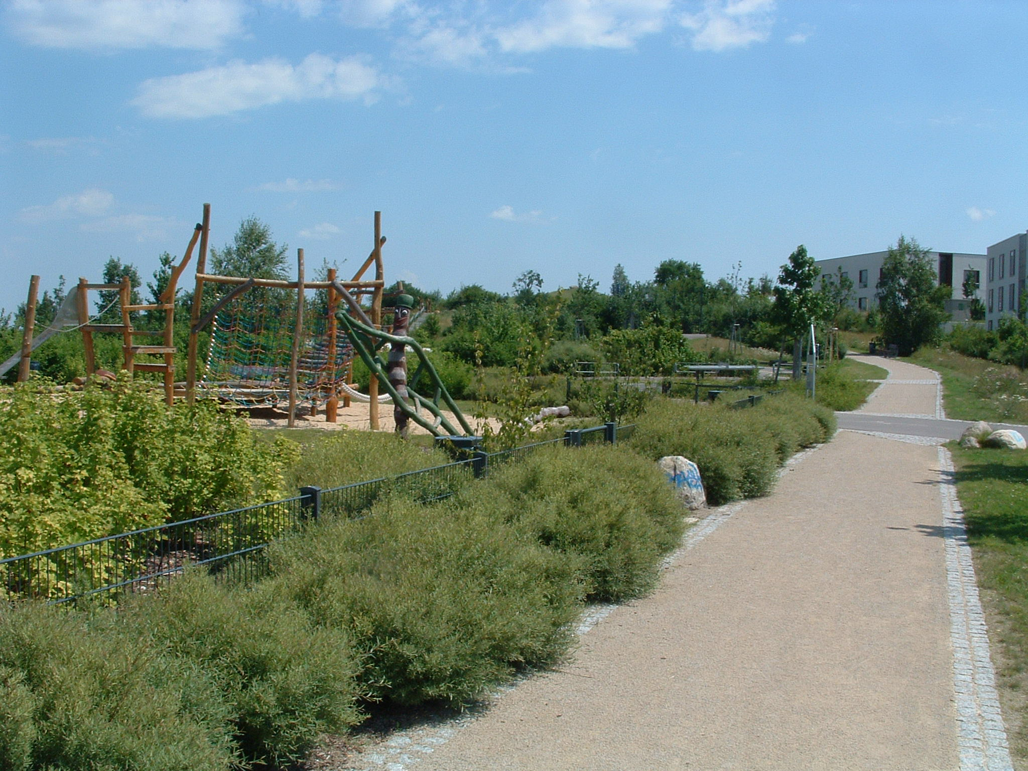 Park on the Falkenberge, built for the new "Paradu" settlement in Bohnsdorf, Berlin.